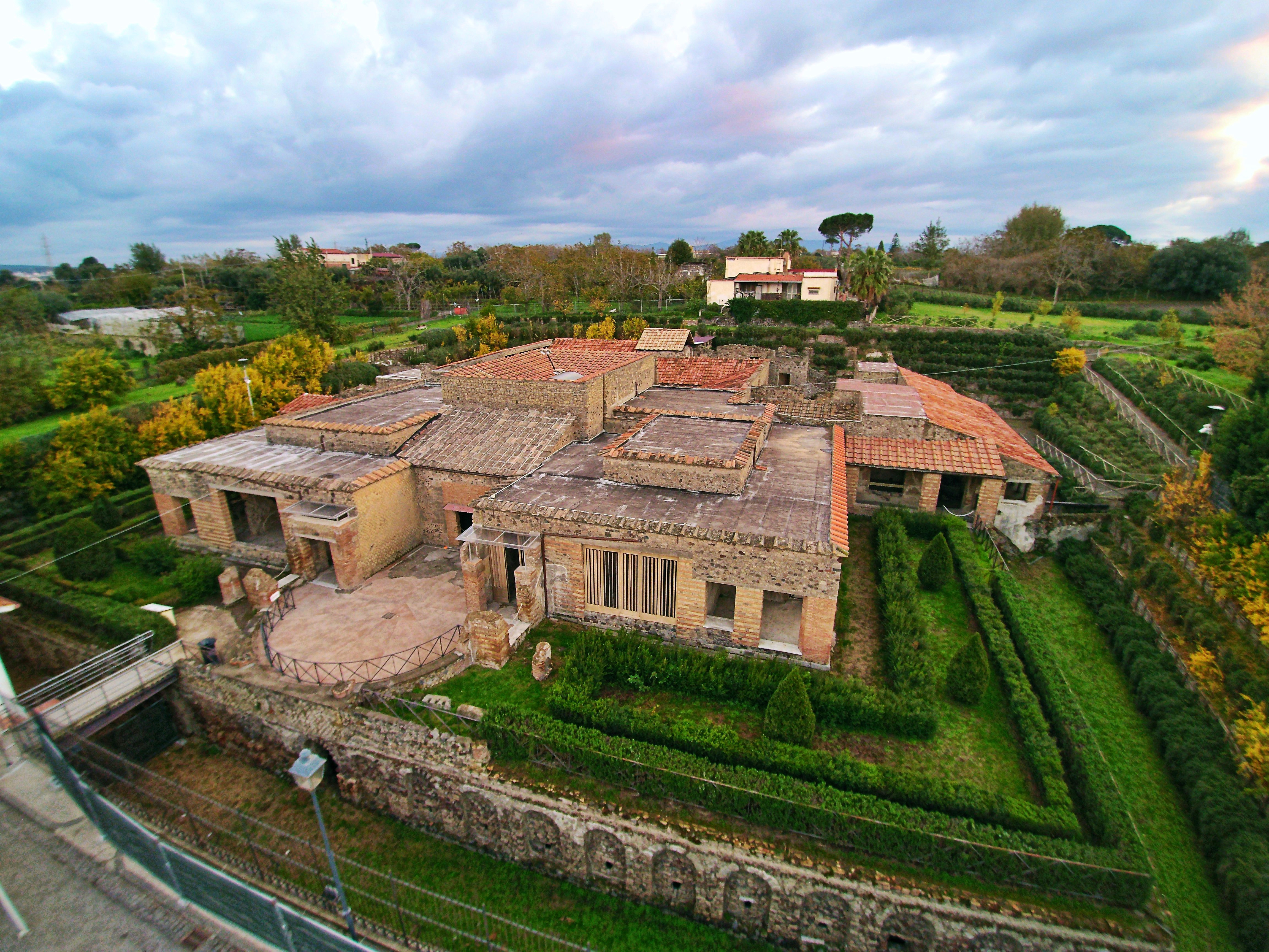 Villa of the Mysteries in Pompeii seen from the above with a drone